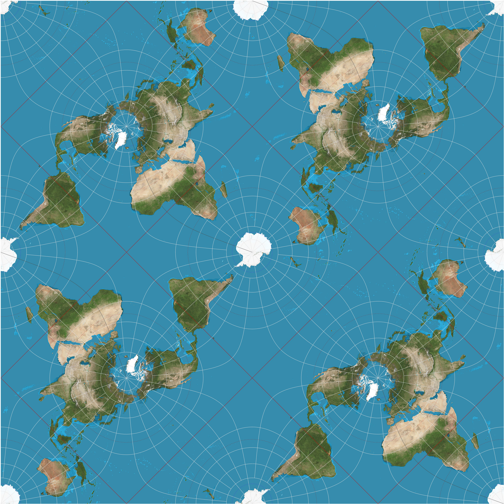 The world tiled on Peirce quincuncial projection. 15° graticule, central meridian at 20°W. Imagery is a derivative of NASA’s Blue Marble summer month composite with oceans lightened to enhance legibility and contrast. Image created with the Geocart map projection software.